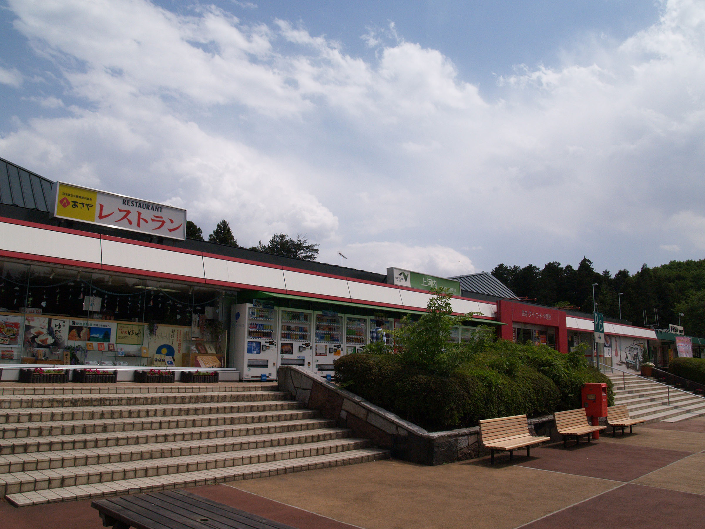 Kamikawachi Service Area on the Tohoku Expressway inbound line for Tokyo